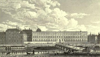 View of The Louvre, Palais de L'Institut (engraved aftr Pugin)